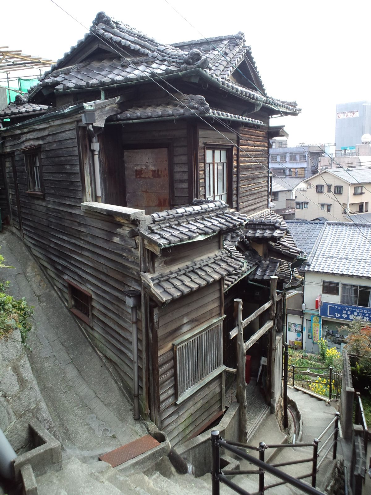 Sangenyacho, Onomichi, Hiroshima Prefecture 722-0031, Japan